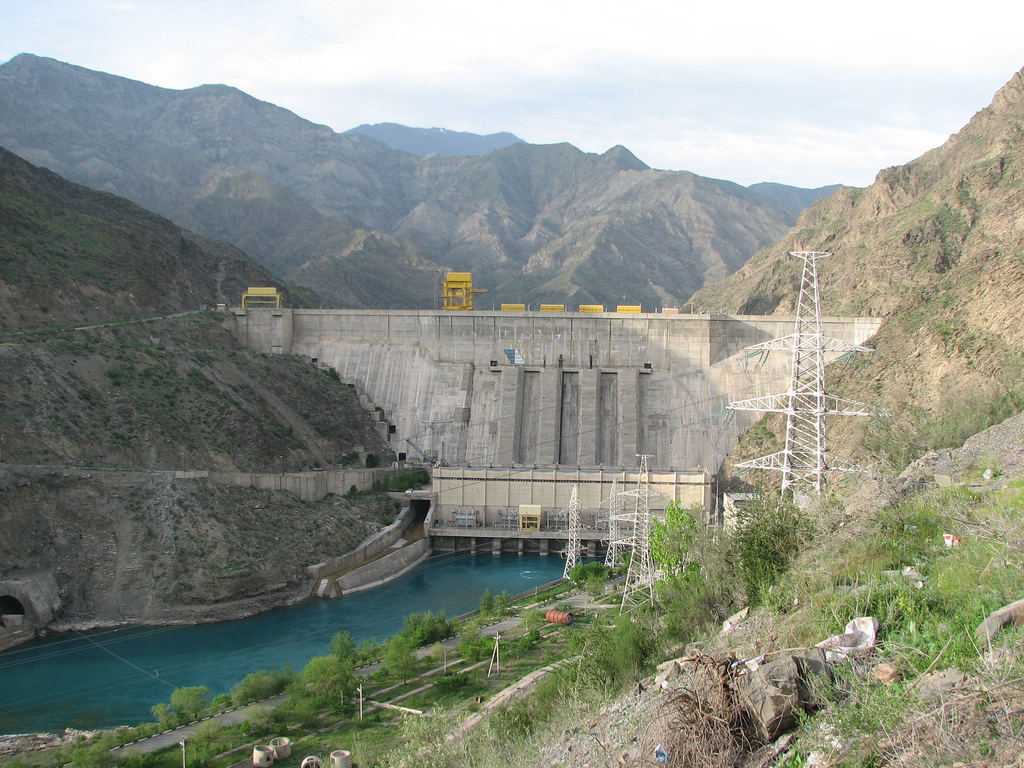 Road from Bishkek to Osh, Kyrgyzstan